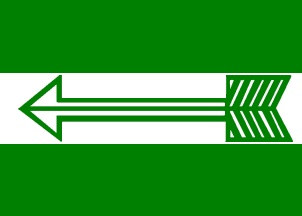 Party logo